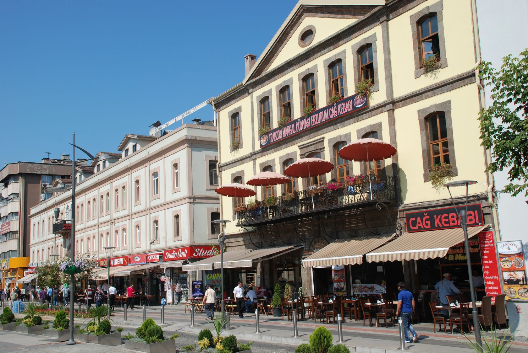 Trabzon, Atatürk Alani